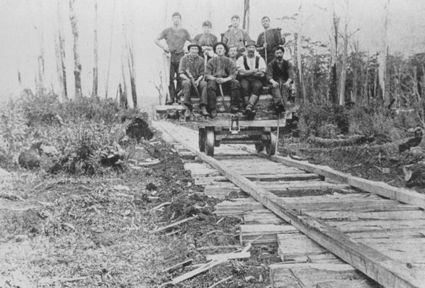 Group of nine Marrawah Tramway employees sitting and standing on single trolley on the wooden tramline section near Marrawah, Tasmania in 13/3/1931.